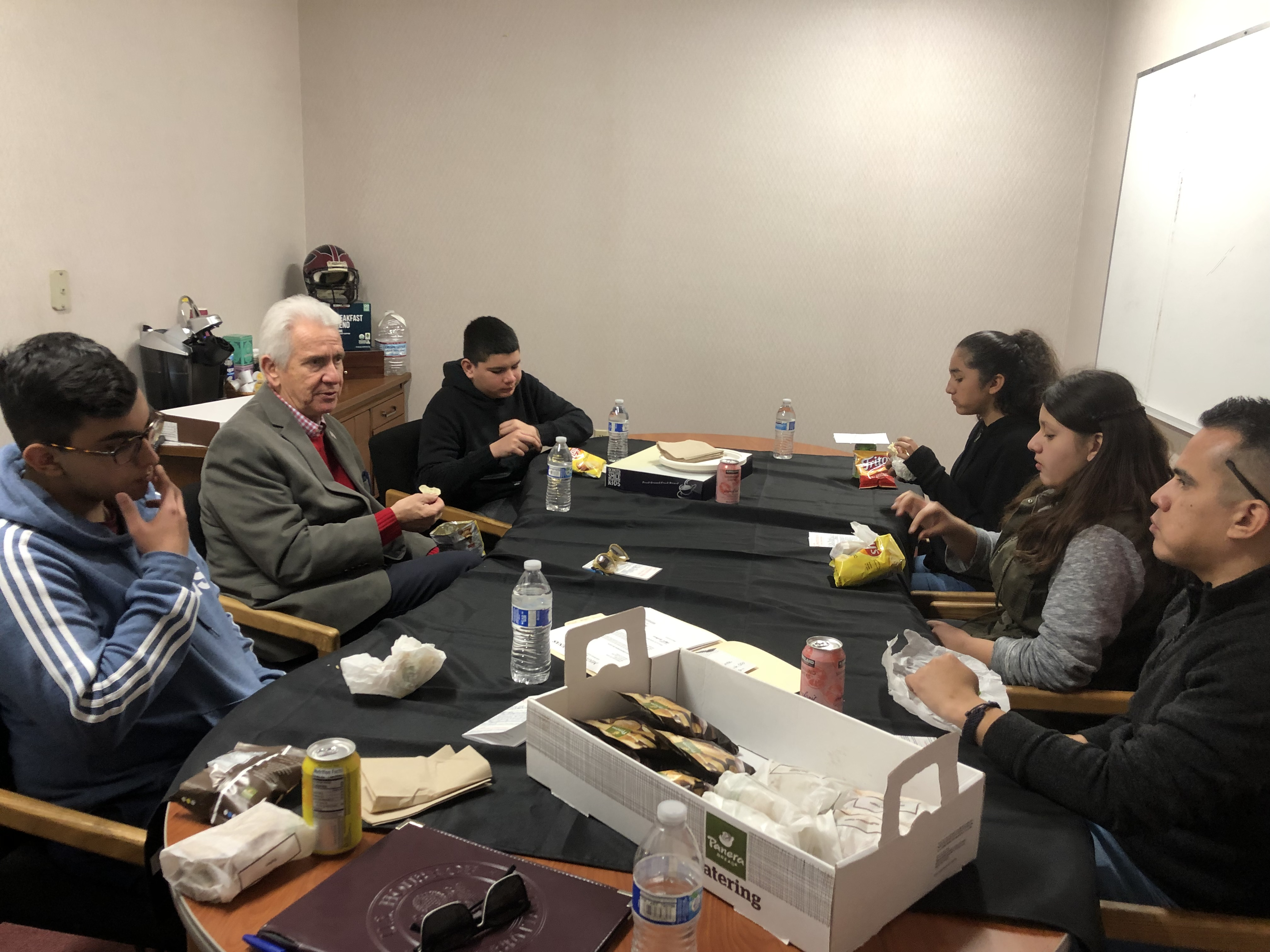 This week I had a chance to visit with students at Delhi Middle School, who recently wrote to me about issues that are important to them. I'm proud to see them exercising their political voice at such a young age.